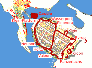 A diagram of the forts at Vyborg in the early 1700's.